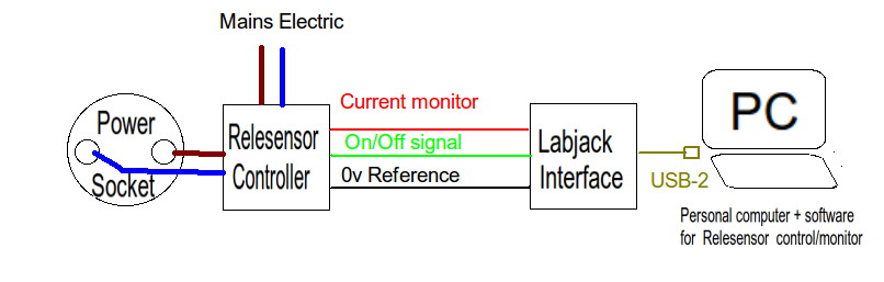 PARVE 'Punto Automatizado de Recarga para Vehículos Eléctricos / Park And Recharge Point for Vehicles: Electrical control and monitoring equipment controlled by mobile cell-phone